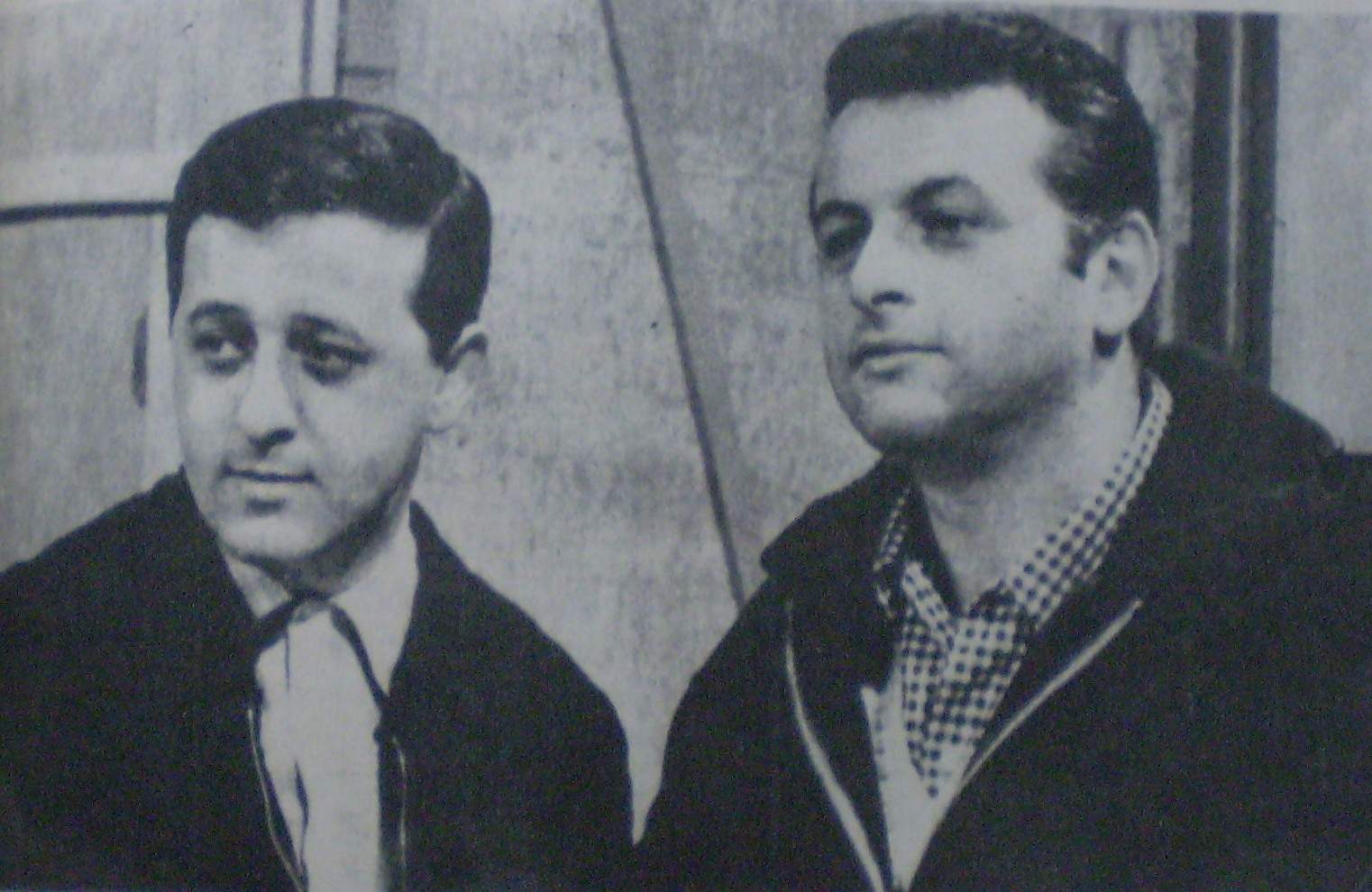 Brothers Hugo and Gerardo Sofovich, who worked as scripters for several movies, theatres and TV shows of Argentina.